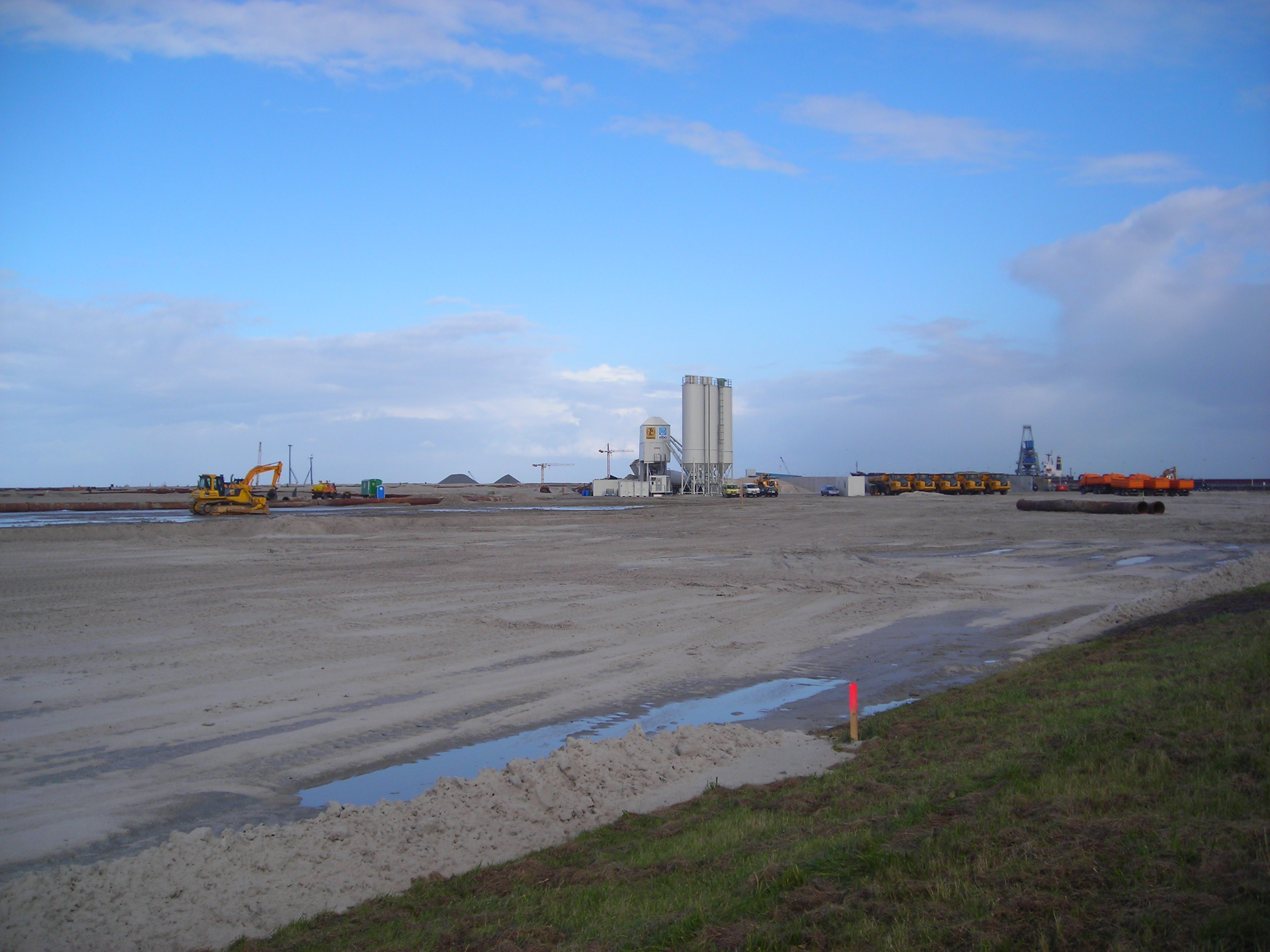 Concrete plant at the JadeWeserPort construction site in Wilhelmshaven, Germany